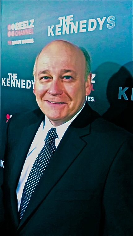 Actor Serge Houde on the Red Carpet at the World Premiere of "The Kennedys" at The Academy of Motion Pictures Arts and Sciences Samuel Goldwyn Theater Beverly Hills, California - 28.03.11